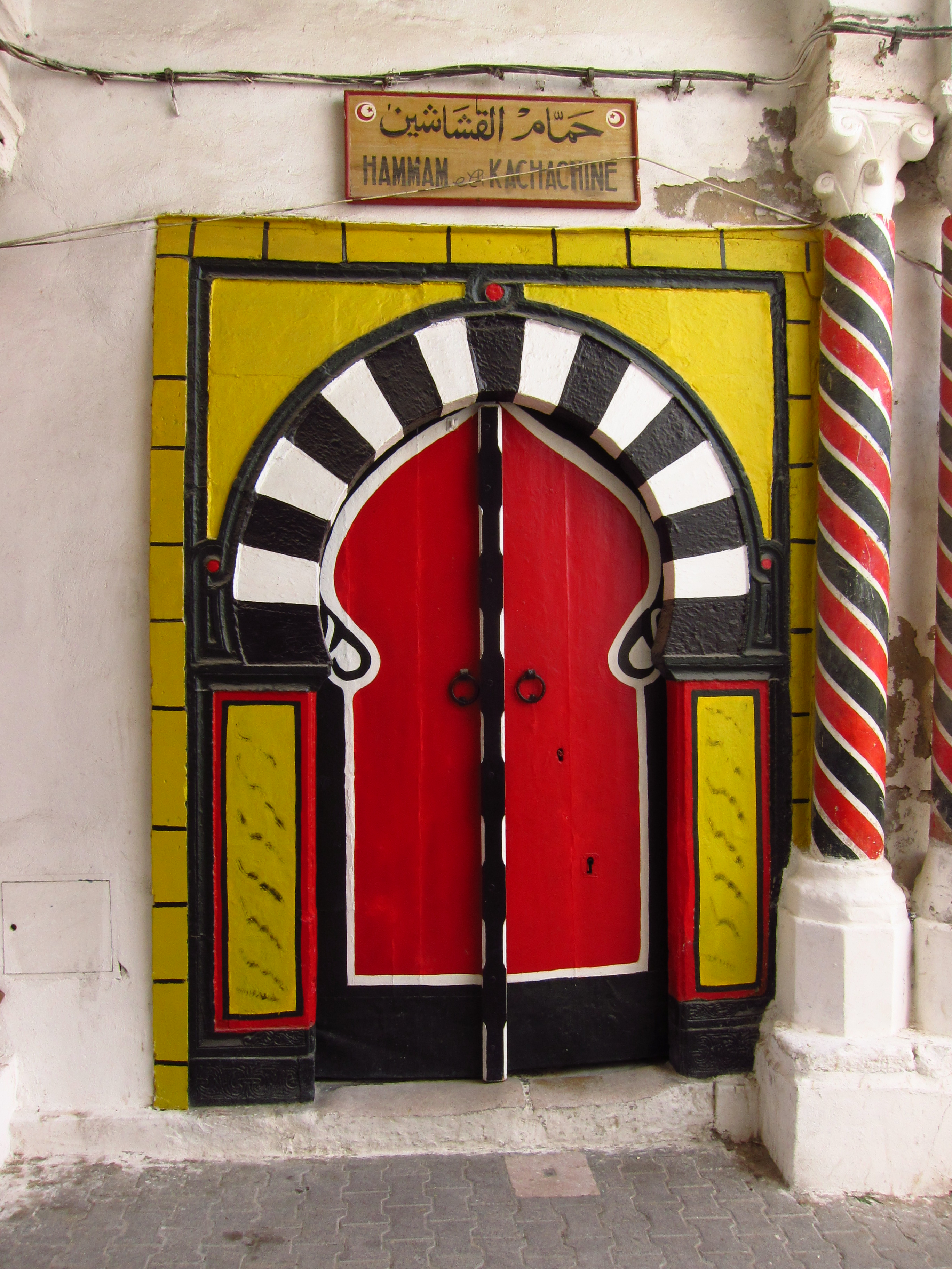 Kachachine hammam yellow door